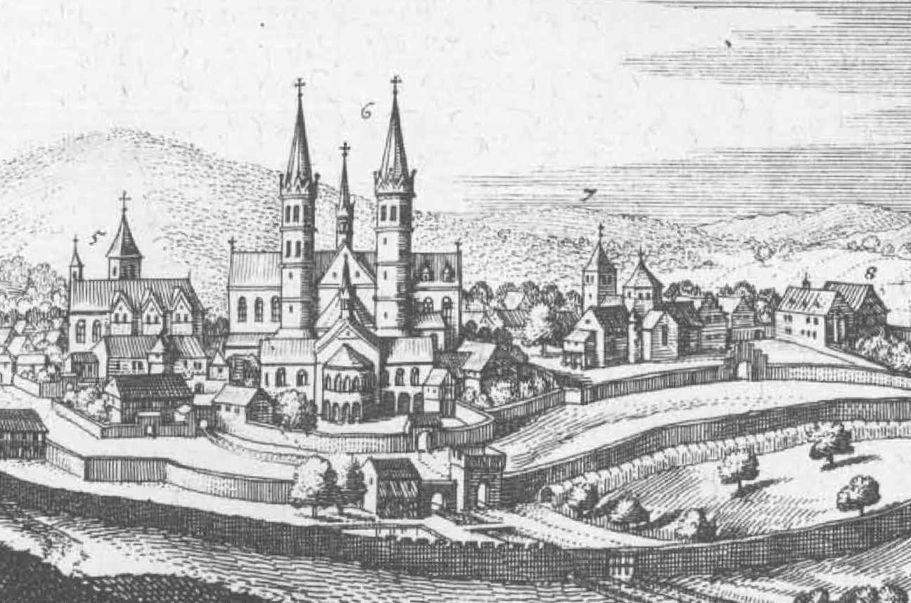 Ratgar-Basilika during renaissance times in Fulda